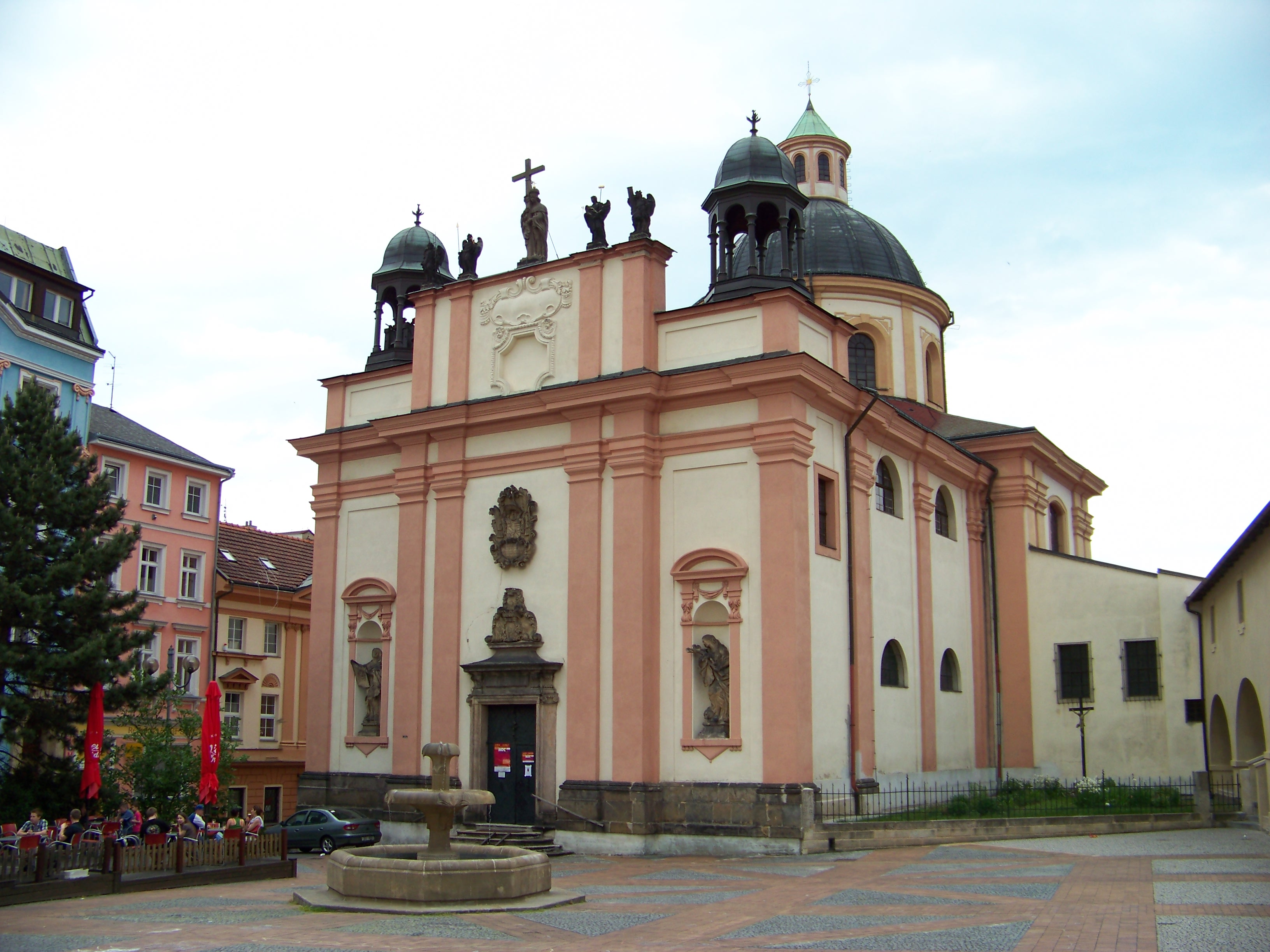 Děčín I-Děčín, Děčín District, Ústí nad Labem Region, the Czech Republic. Křížová street, church of the Exaltation of the Holy Cross. - OpenStreetMap(Info)